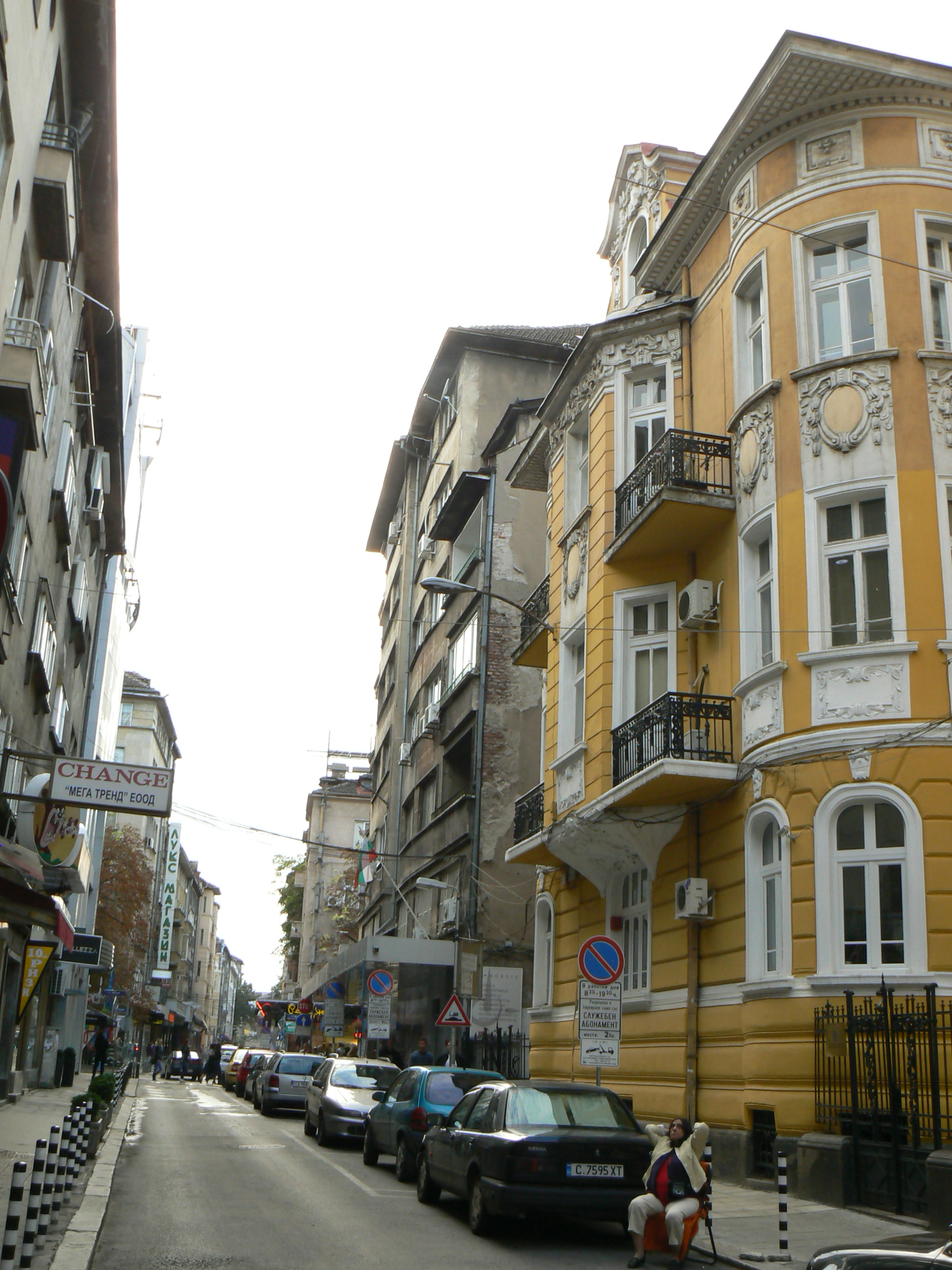 Sofia, "Ivan Denkooglu" Street